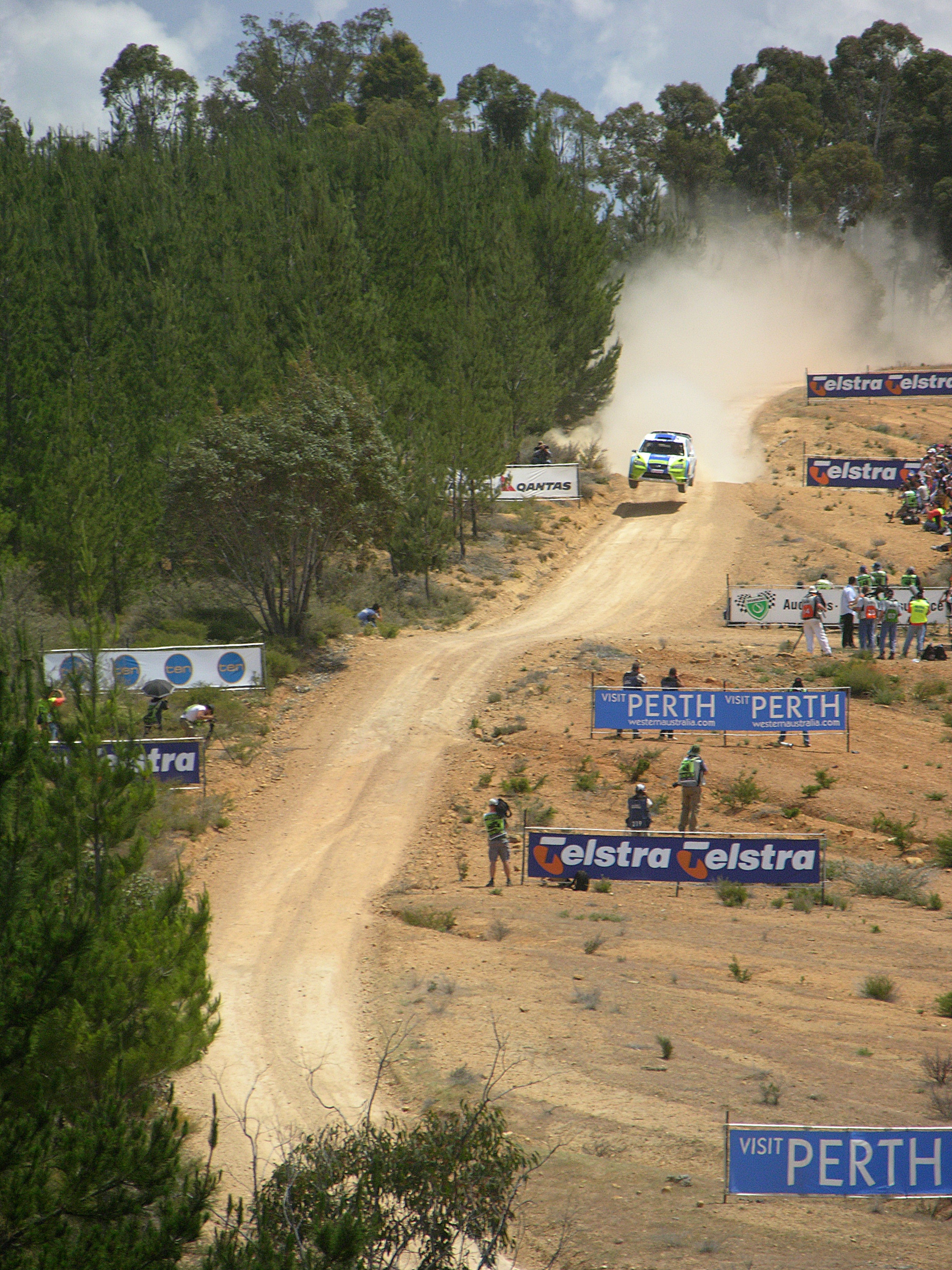 Marcus Grönholm gets some air in his BP Ford Focus RS at the famous Bunnings jumps on the Bannister North II special stage during the third day of the Telstra Rally Australia 2006.